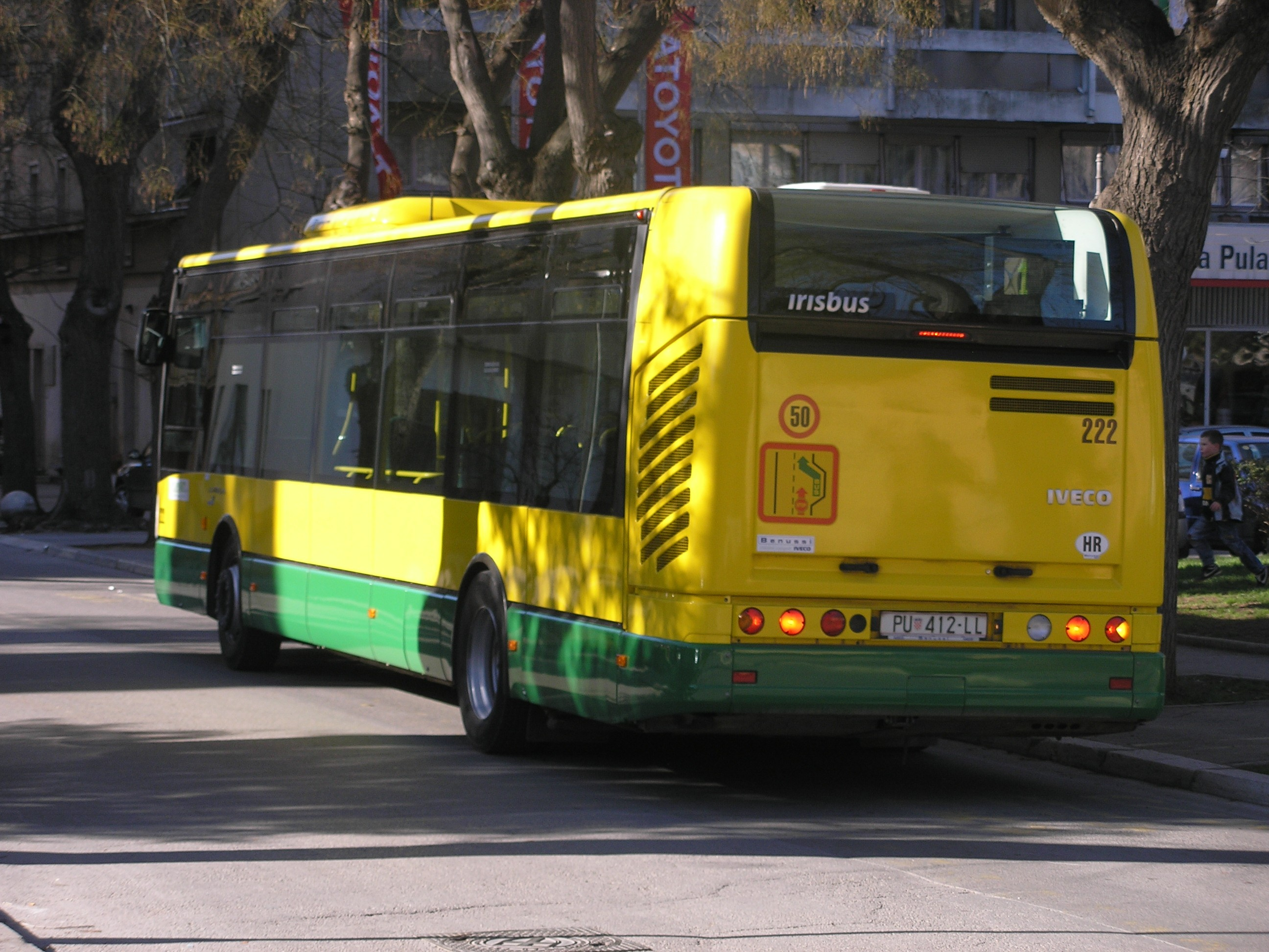 A Pulapromet bus